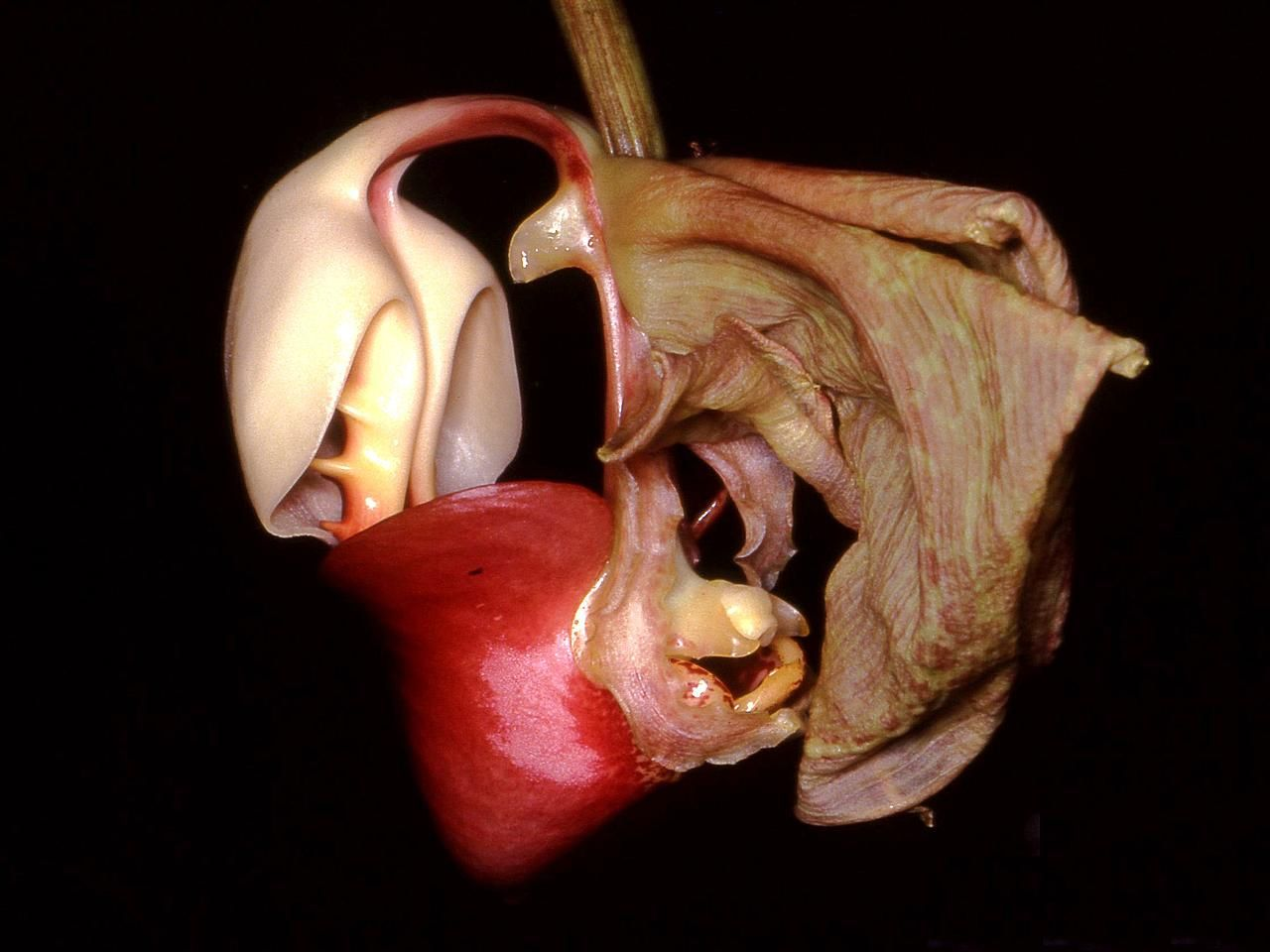 Coryanthes leucocorys - single flower